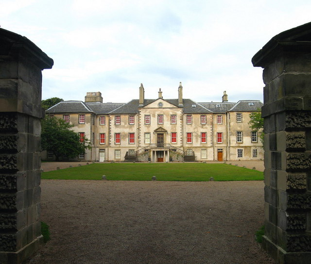 Newhailes. As seen from the southeast. Built around 1686, it was bought by Sir David Dalrymple in 1707. Dalrymple renamed the property Newhailes, after his ruined Hailes Castle (near East Linton). The last of the line, Sir Mark Dalrymple, died in 1971 and in lieu of death duties, the contents of the great library were removed to the National Library of Scotland. In 1997, the house was given to the National Trust for Scotland by his wife Lady Antonia Dalrymple because the cost of upkeep had become impossible and the house was in danger of falling into disrepair. Now, restoration is ongoing with support from the Heritage Lottery Fund, Historic Scotland and the NTS, and the intention is to return the magnificent collection of books to their rightful place in the library once restoration is complete.